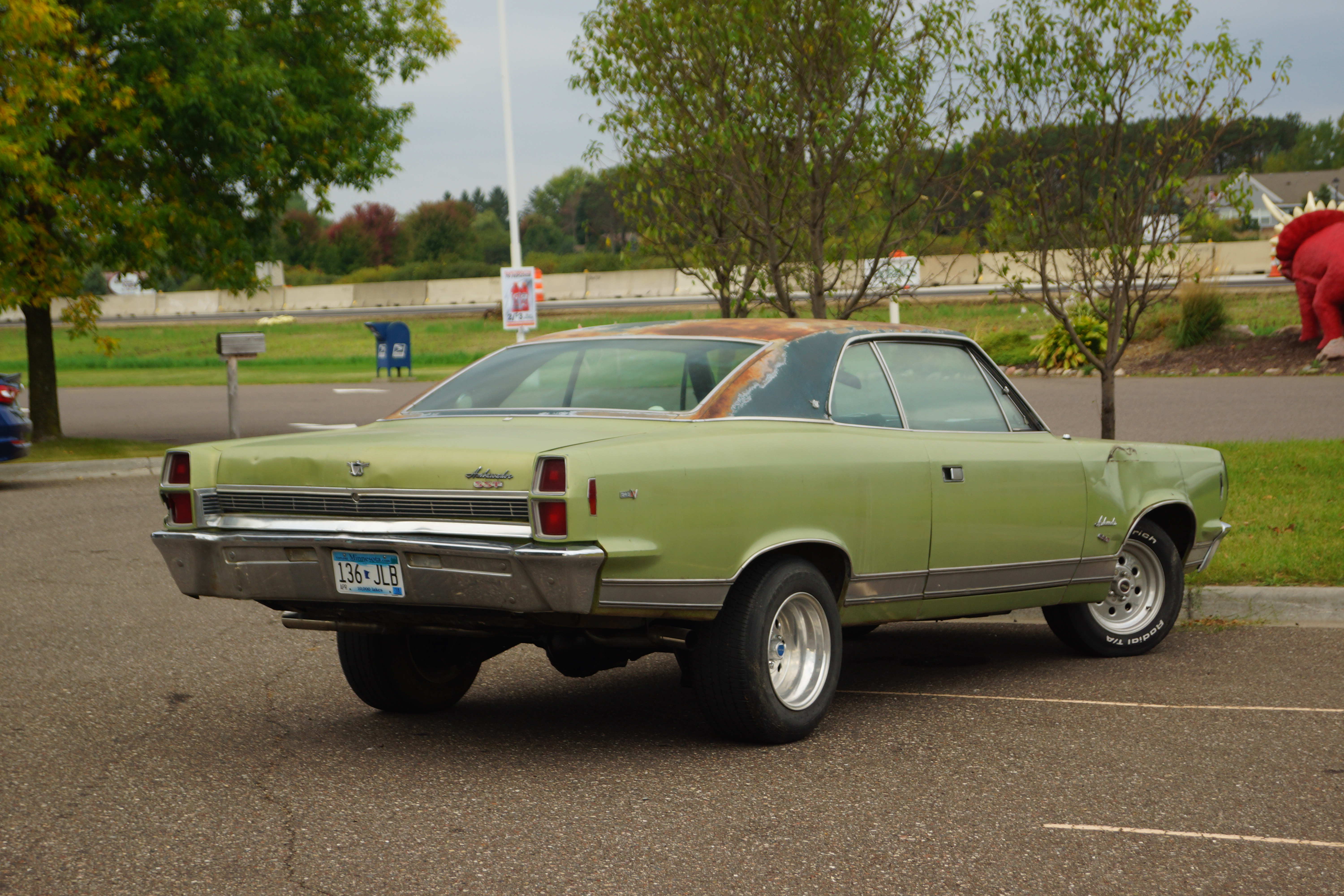 Click here for more car pictures at my Flickr site. Or here for my Car Crazy Tumblr site. Or on Twitter @DVS1mn.